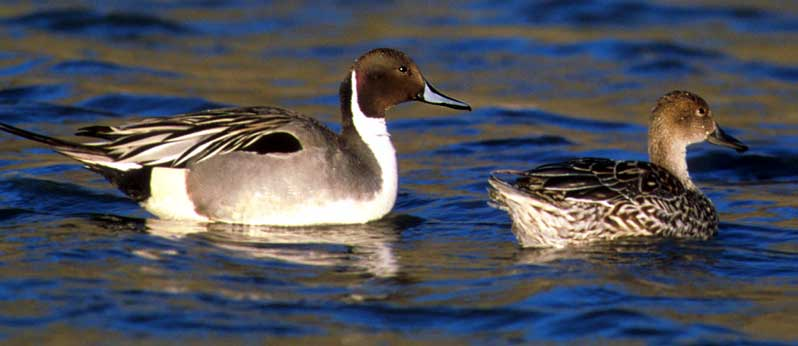 Northern Pintail pair (Anas acuta)